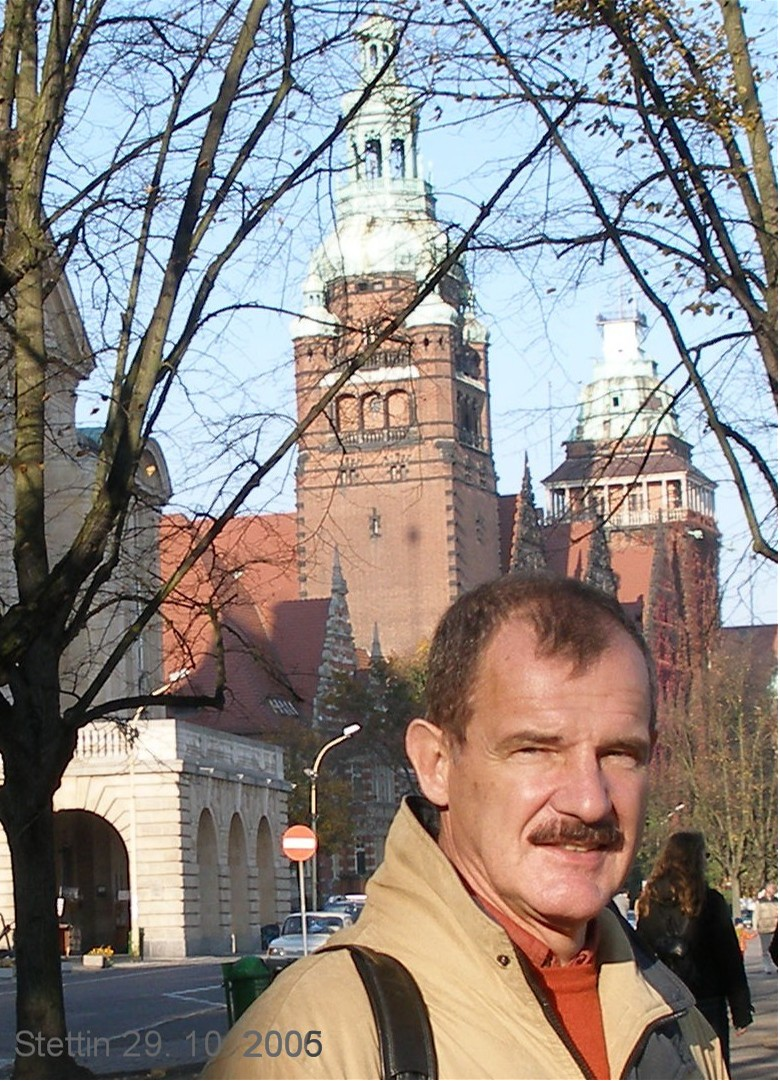 Michael Ermann 2005 in Stettin / Szeczin where he was born in 1943